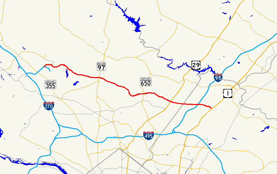 Map of Intercounty Connector